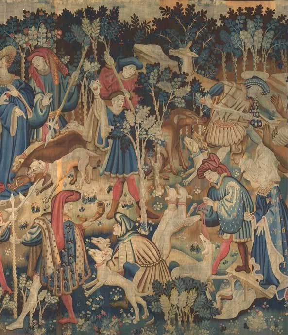 Boar and Bear Hunt, The Devonshire Hunting Tapestries, late 1420s V&A Museum no. T.204-1957 Techniques - Tapestry woven with wool warp and weft Place - Netherlands